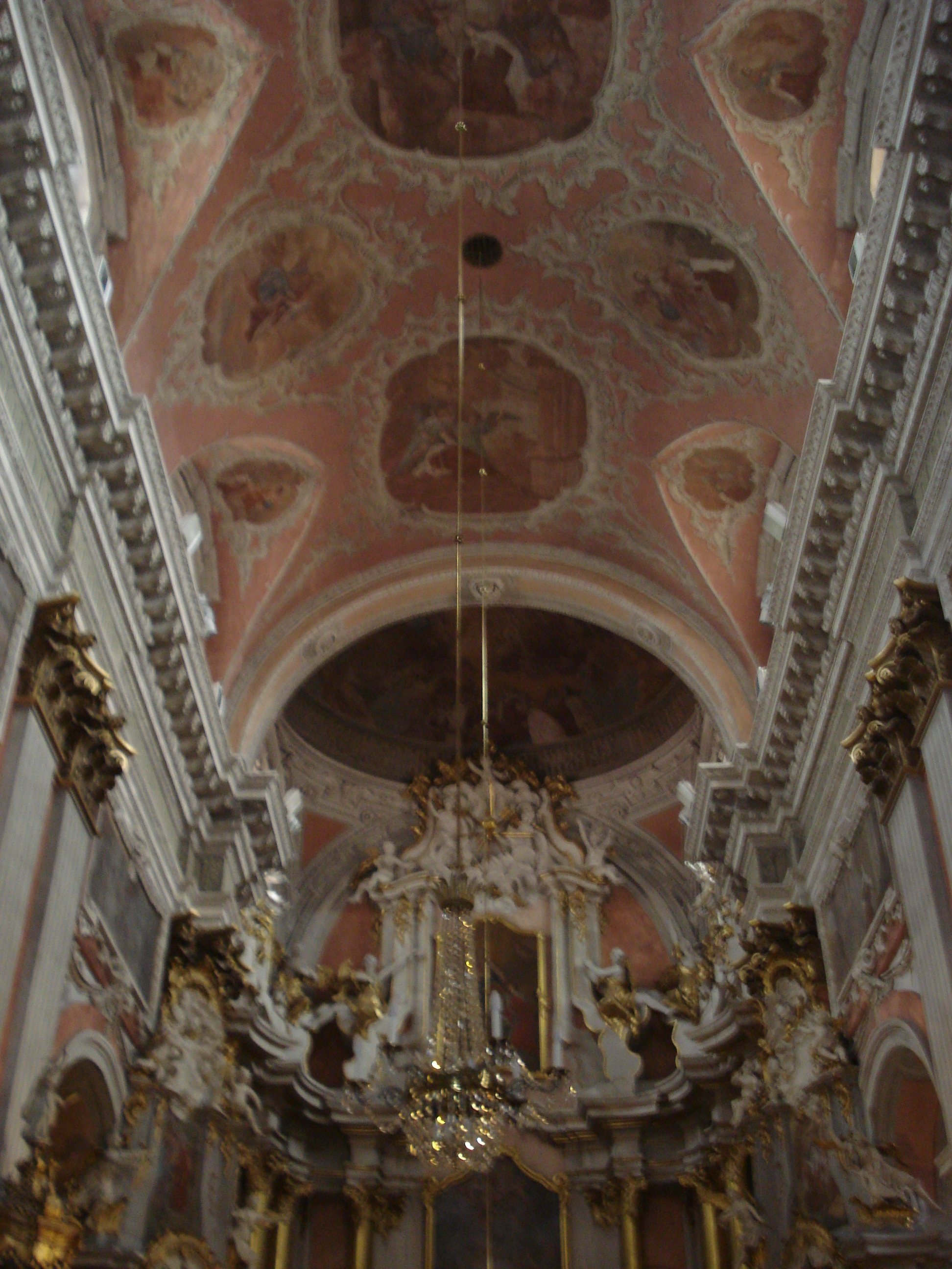 The vaults of the central nave of the Church of the St Teresa in Vilnius (Aušros Vartų g. 14)